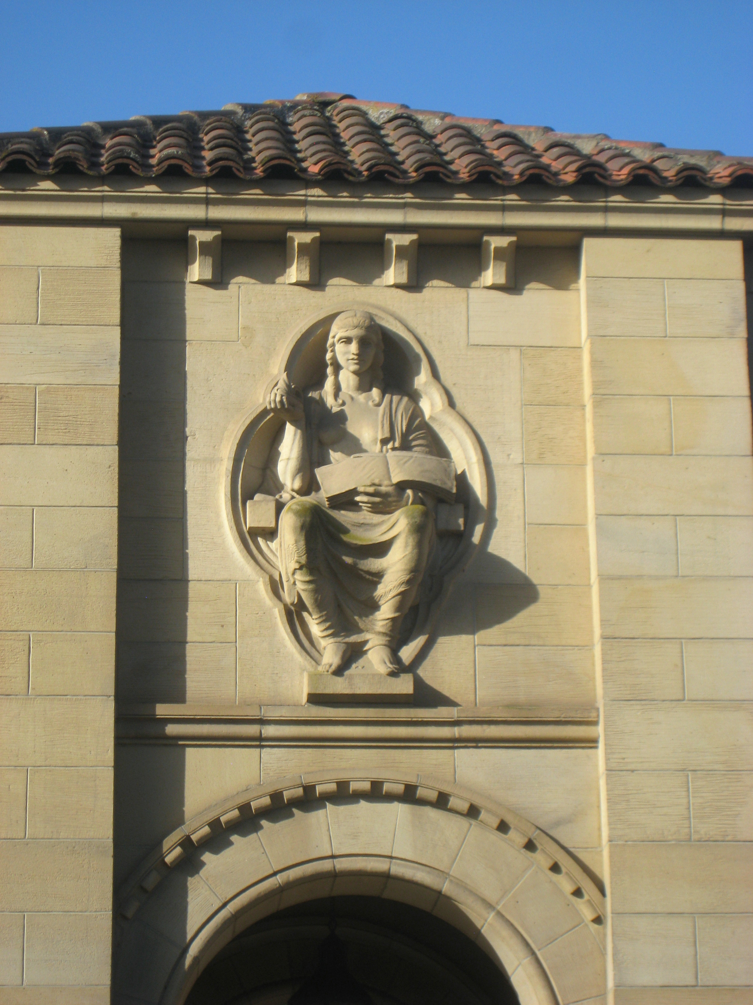 Sculpture on main gate to campus, Stanford University, Stanford, California, USA.